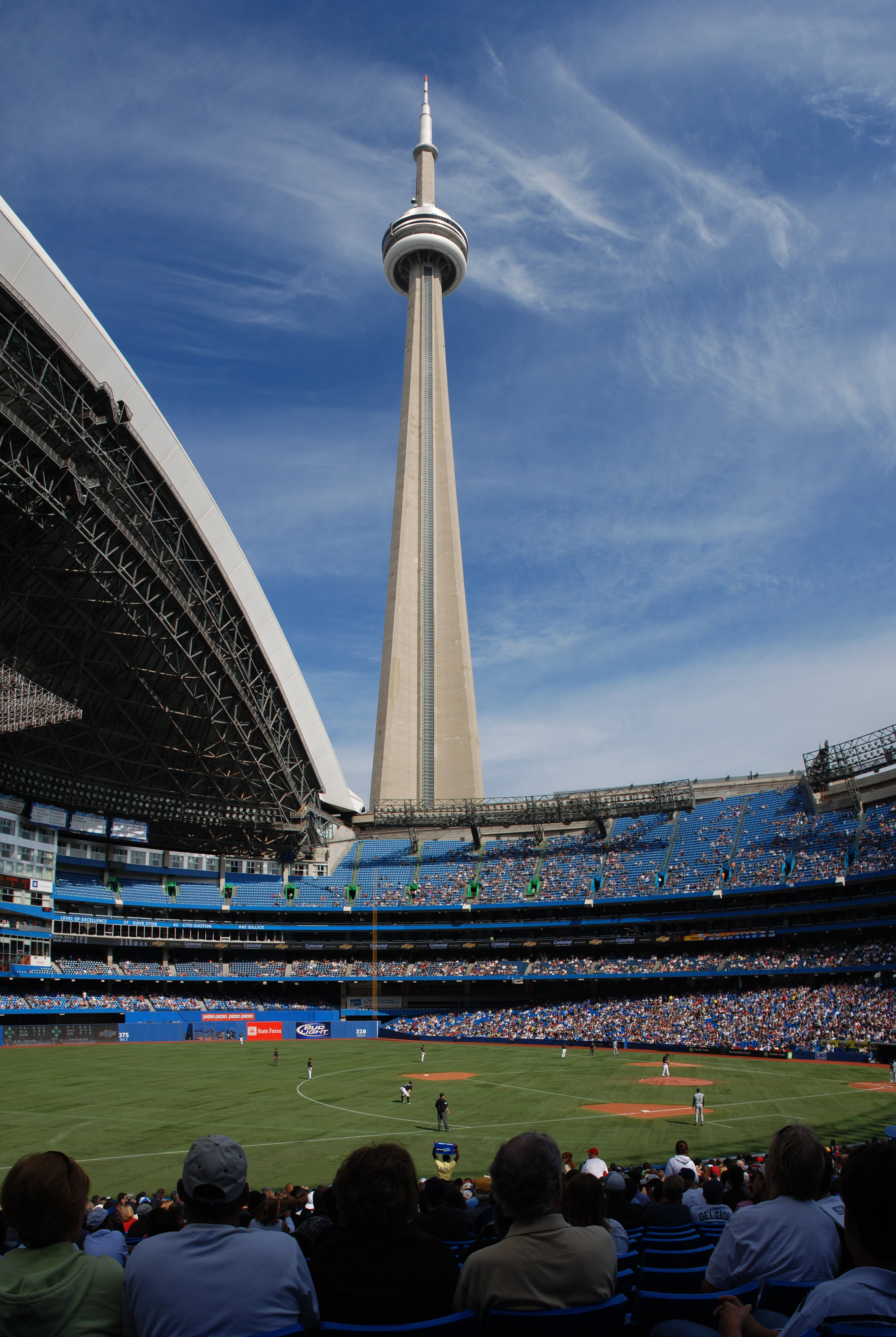 This is a stitch made from three photos. Taken at the last Jays game of the year vs. Tampa Bay. Re-stitched using Hugin by Nicolas Sanchez